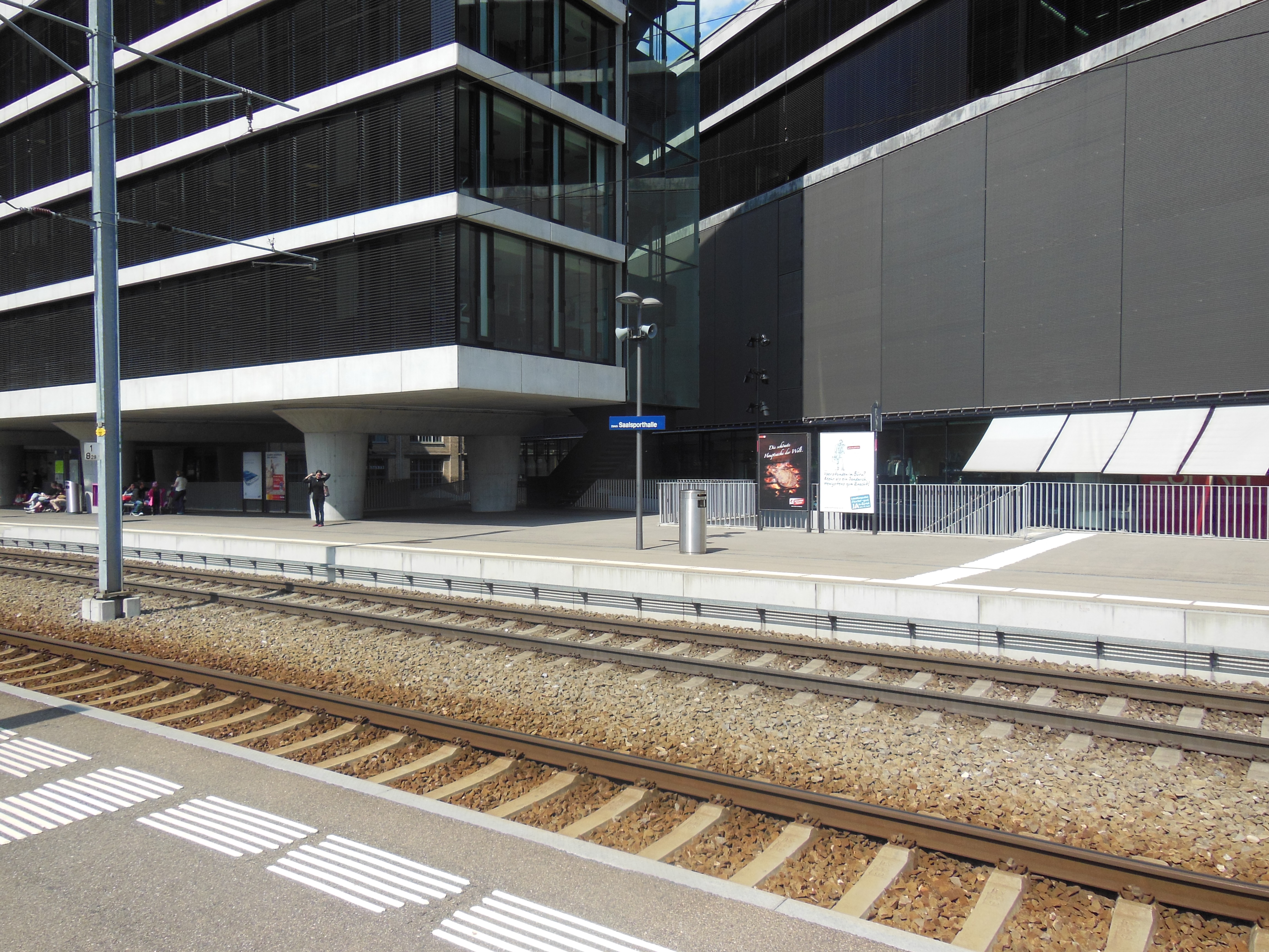 View from the Zurich bound platform of the Zürich Saalsporthalle-Sihlcity railway station, looking across the tracks to the opposite platform and Sihlcity shopping centre. For more information, see Wikipedia article Zürich Saalsporthalle-Sihlcity railway station.